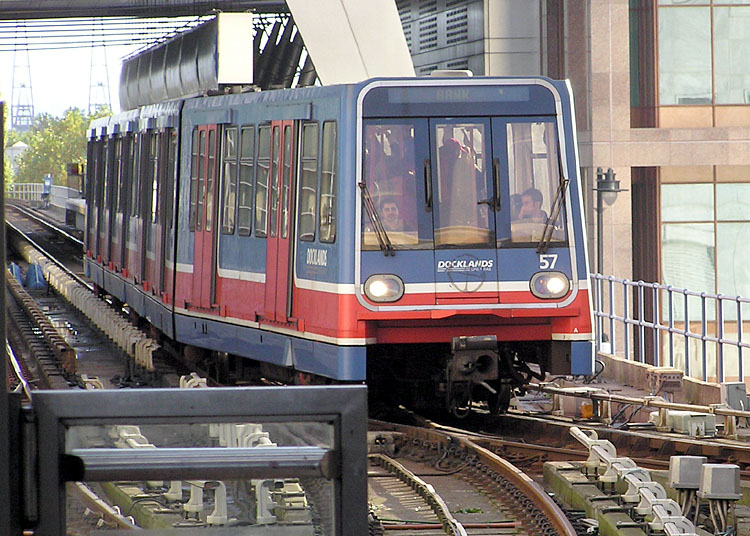 Docklands Light Railway train entering Canary Wharf station from the east.